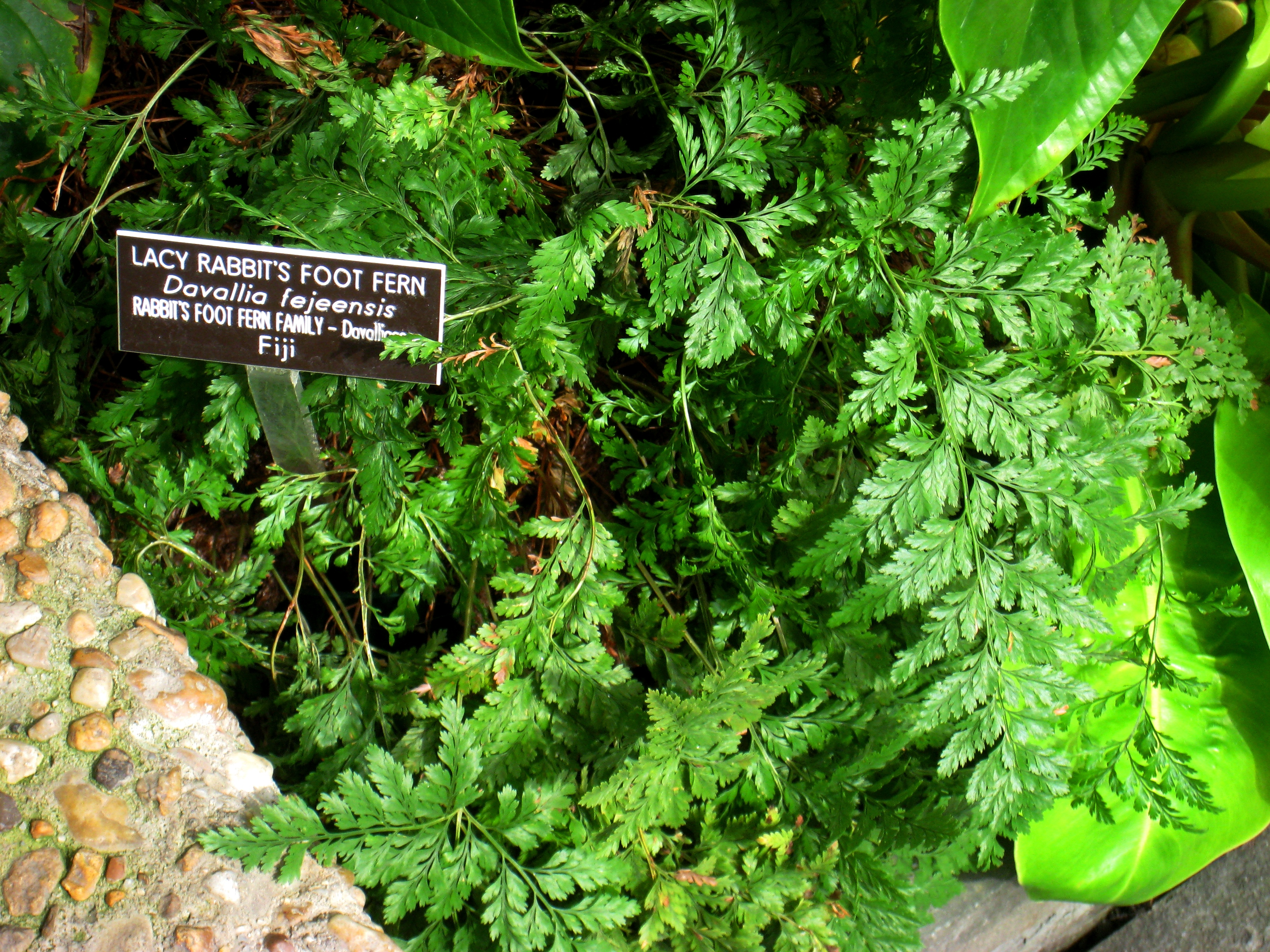 Davallia fejeensis, in the United States Botanic Garden, Washington, DC, USA.